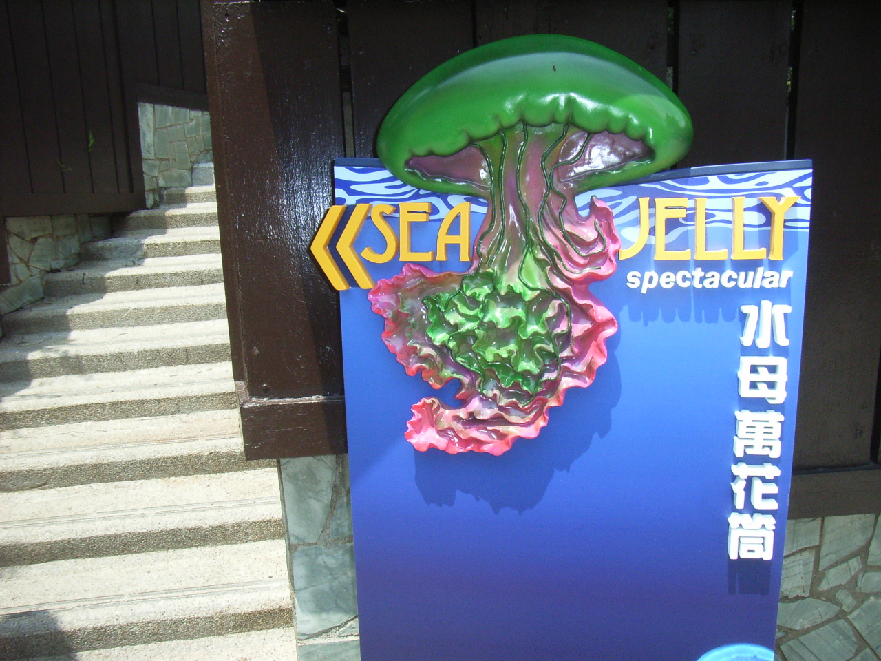 The new "Sea Jelly Spectacular" of HK Ocean Park 水母萬花筒 opened on April 10th, 2006